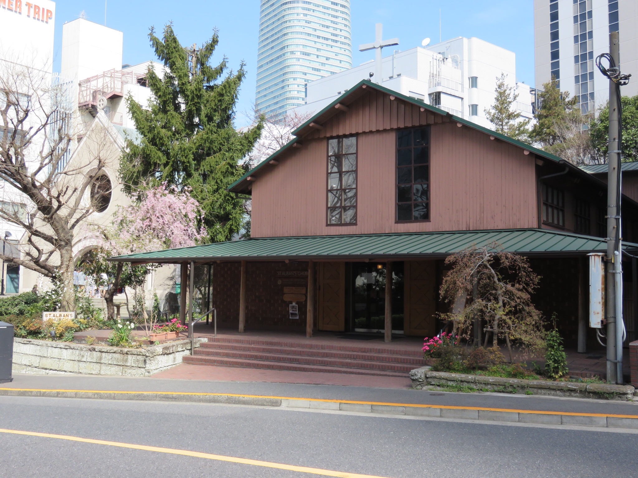 St. Alban's, Tokyo, Easter 2015